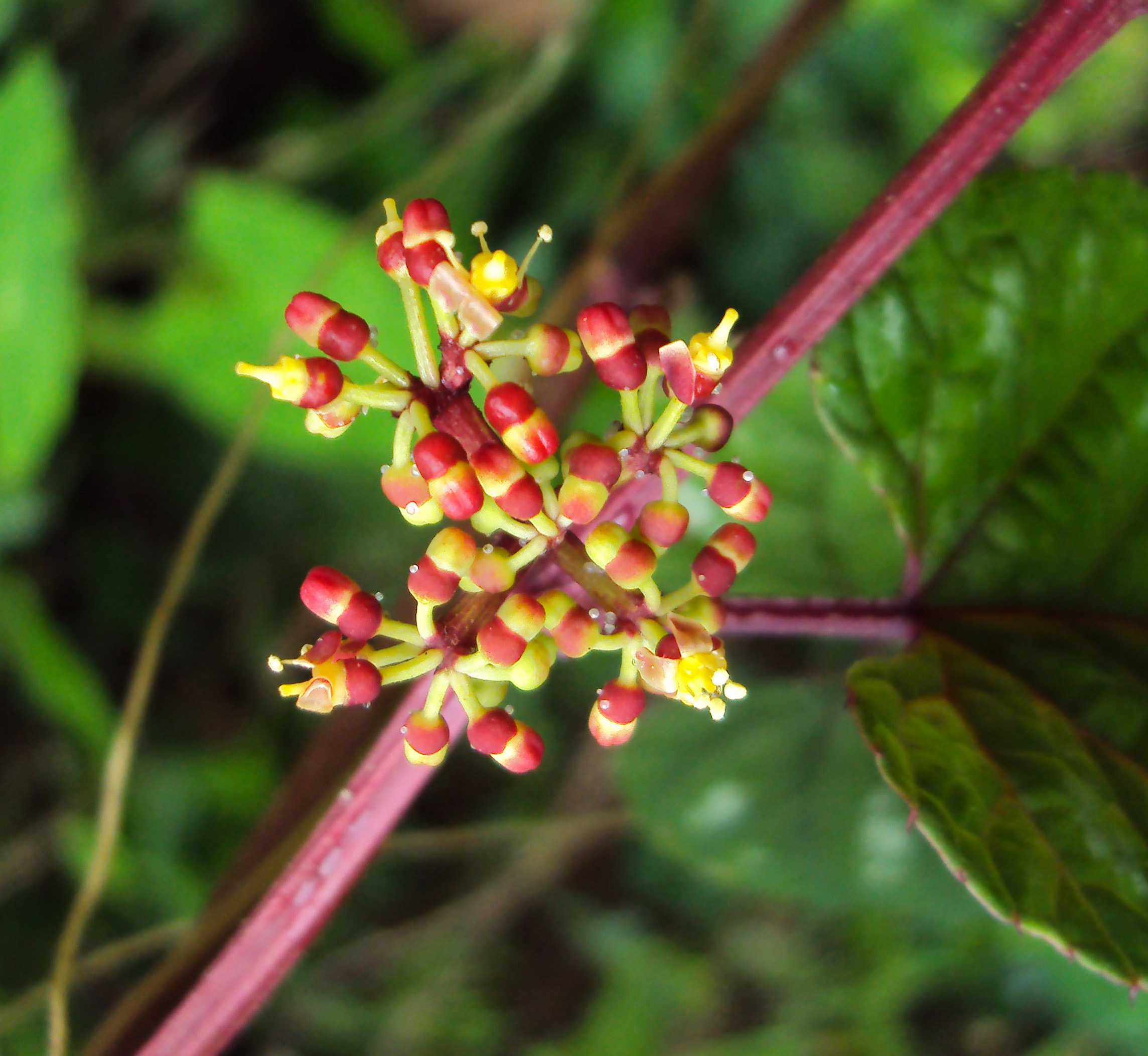 Cissus discolor